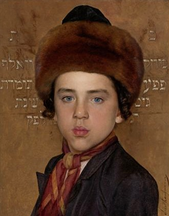 Portrait of a boy